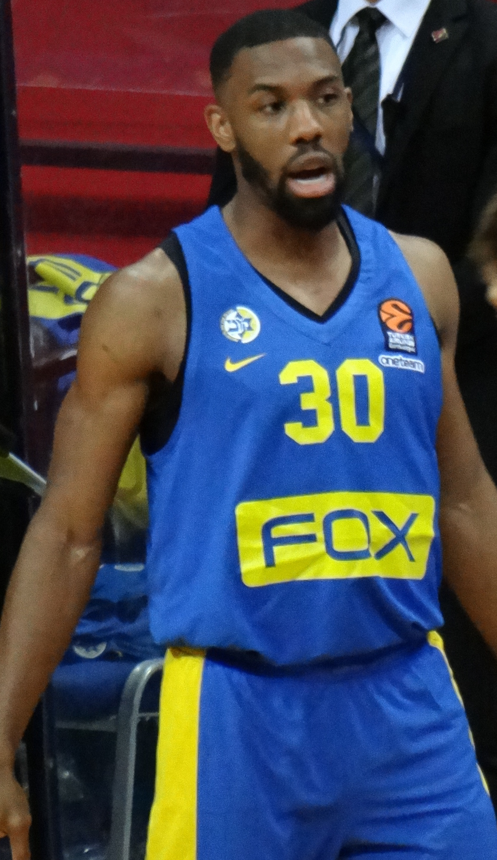 Norris Cole 30 Maccabi Tel Aviv B.C. EuroLeague 20180320